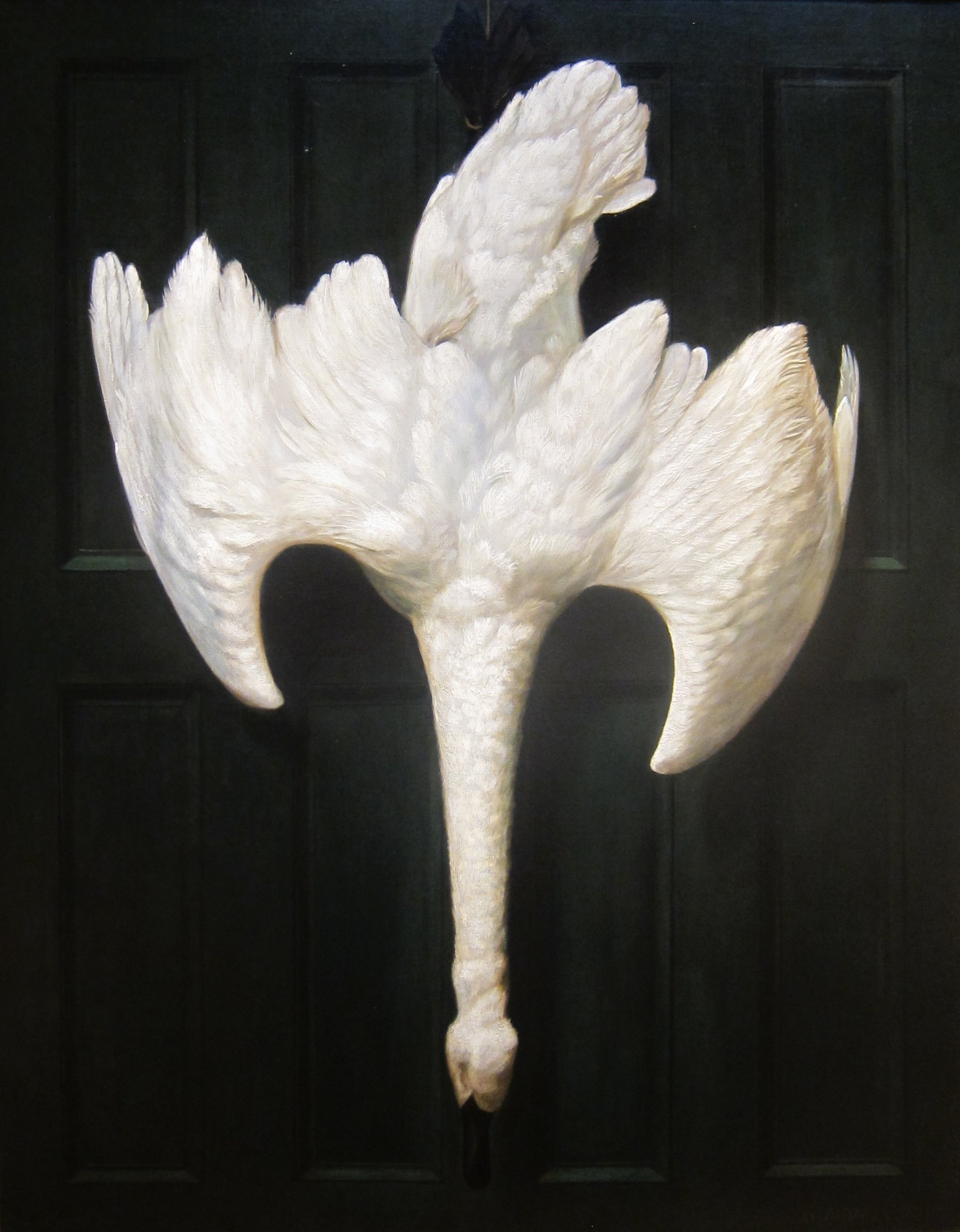 The Wild Swan, oil on canvas painting by Alexander Pope, 1900, De Young Museum